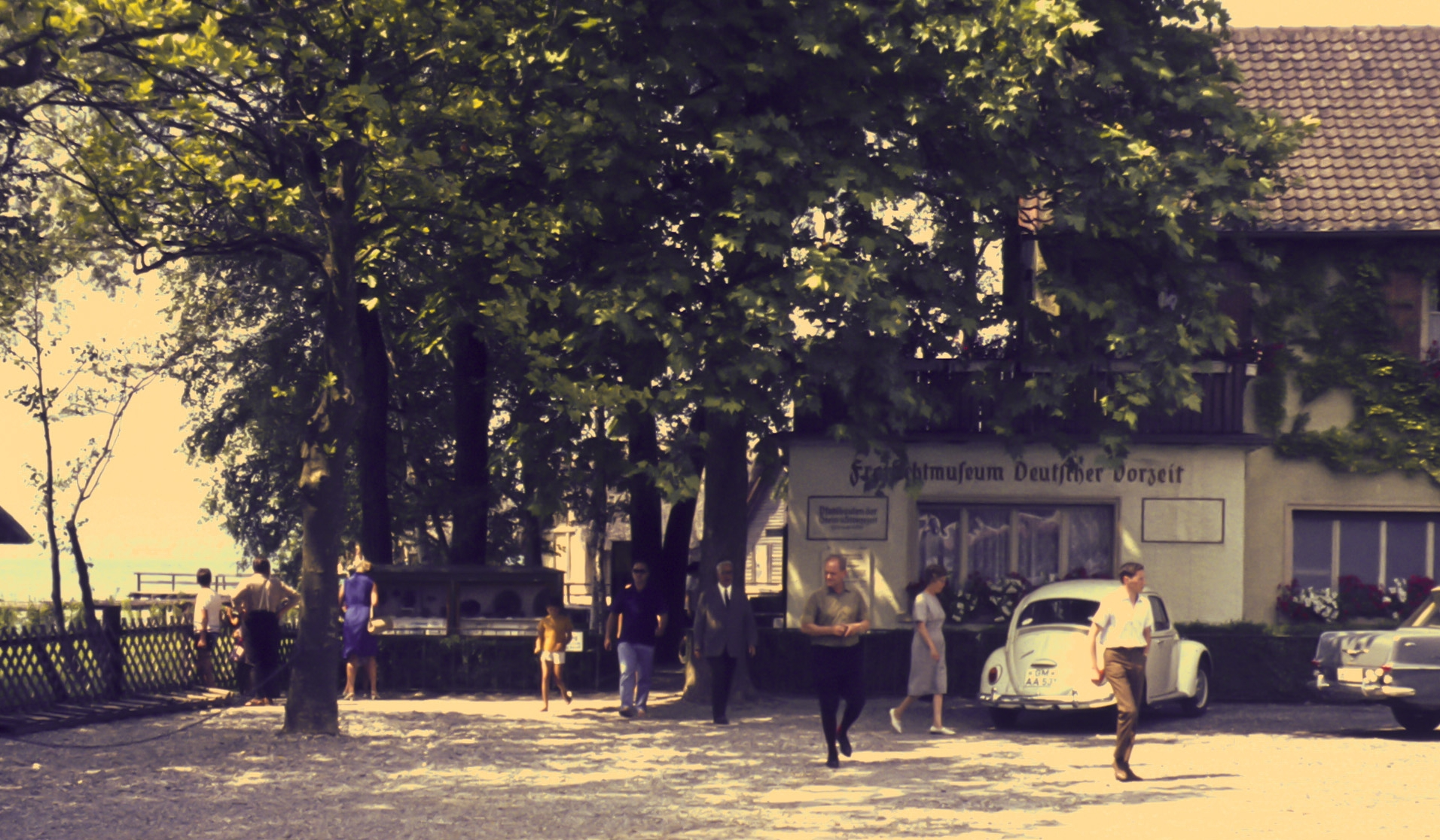 Old entrance to the Pfahlbaumuseum Unteruhldingen.